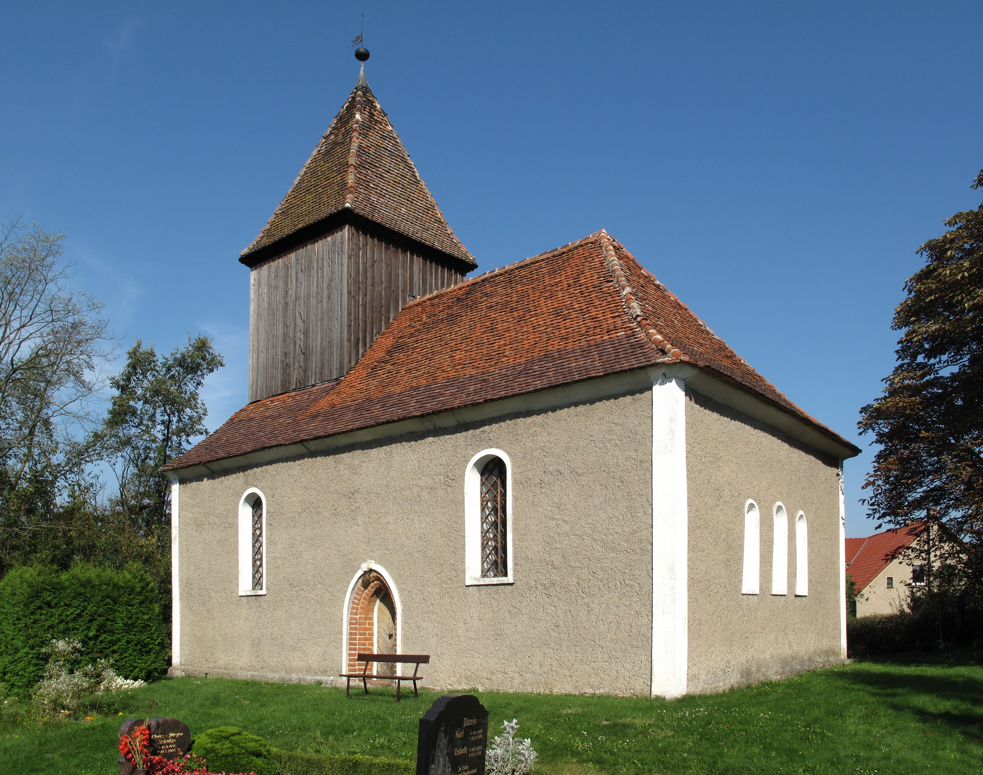 Listed protestant village church in Wulfersdorf. Wulfersdorf is a part of the municipality Tauche in the District Oder-Spree, Brandenburg, Germany. The medieval fieldstone church was rebuilt in 1670.